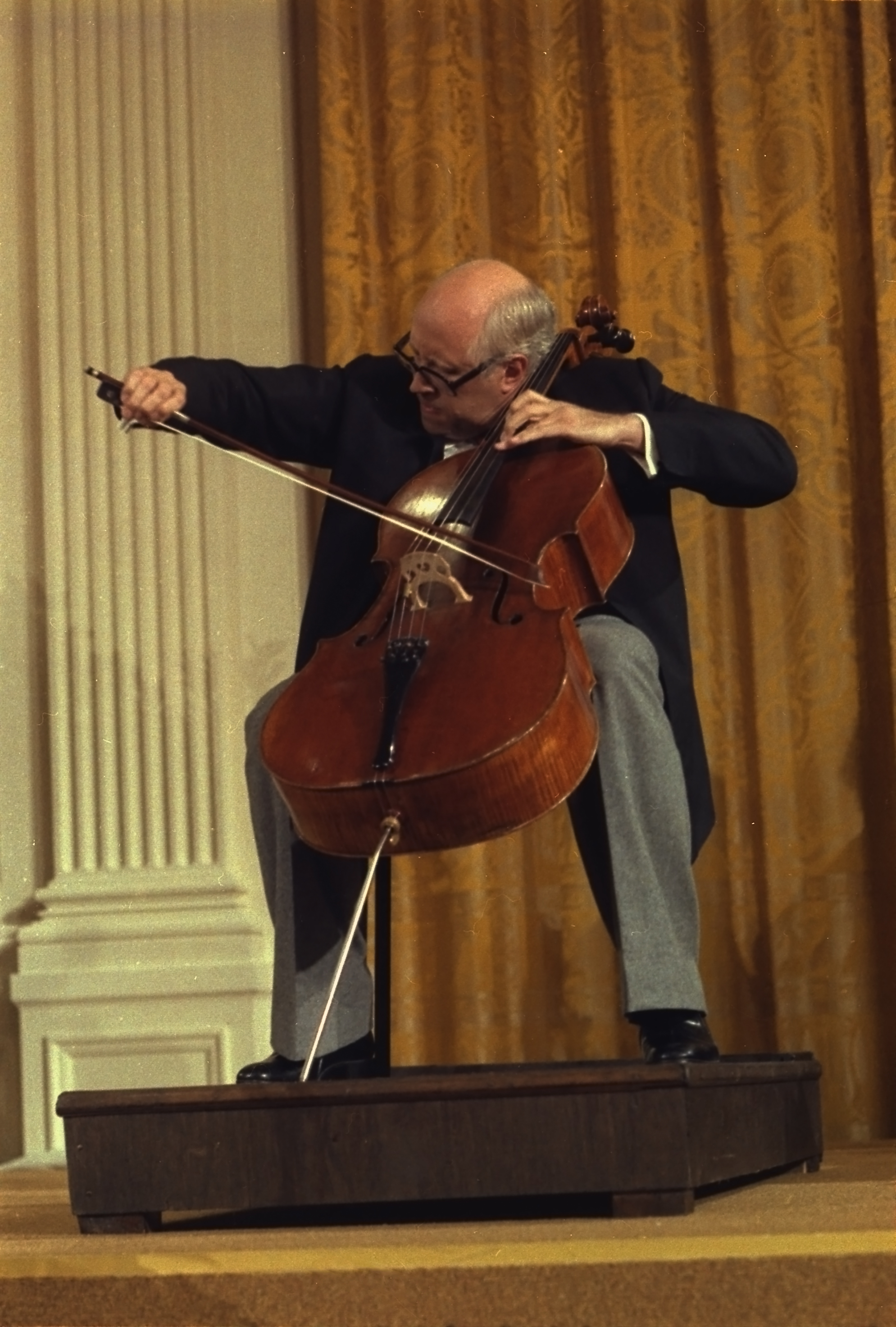 Cellist Mstislav Rostropovich, performing at the White House on September 17, 1978.